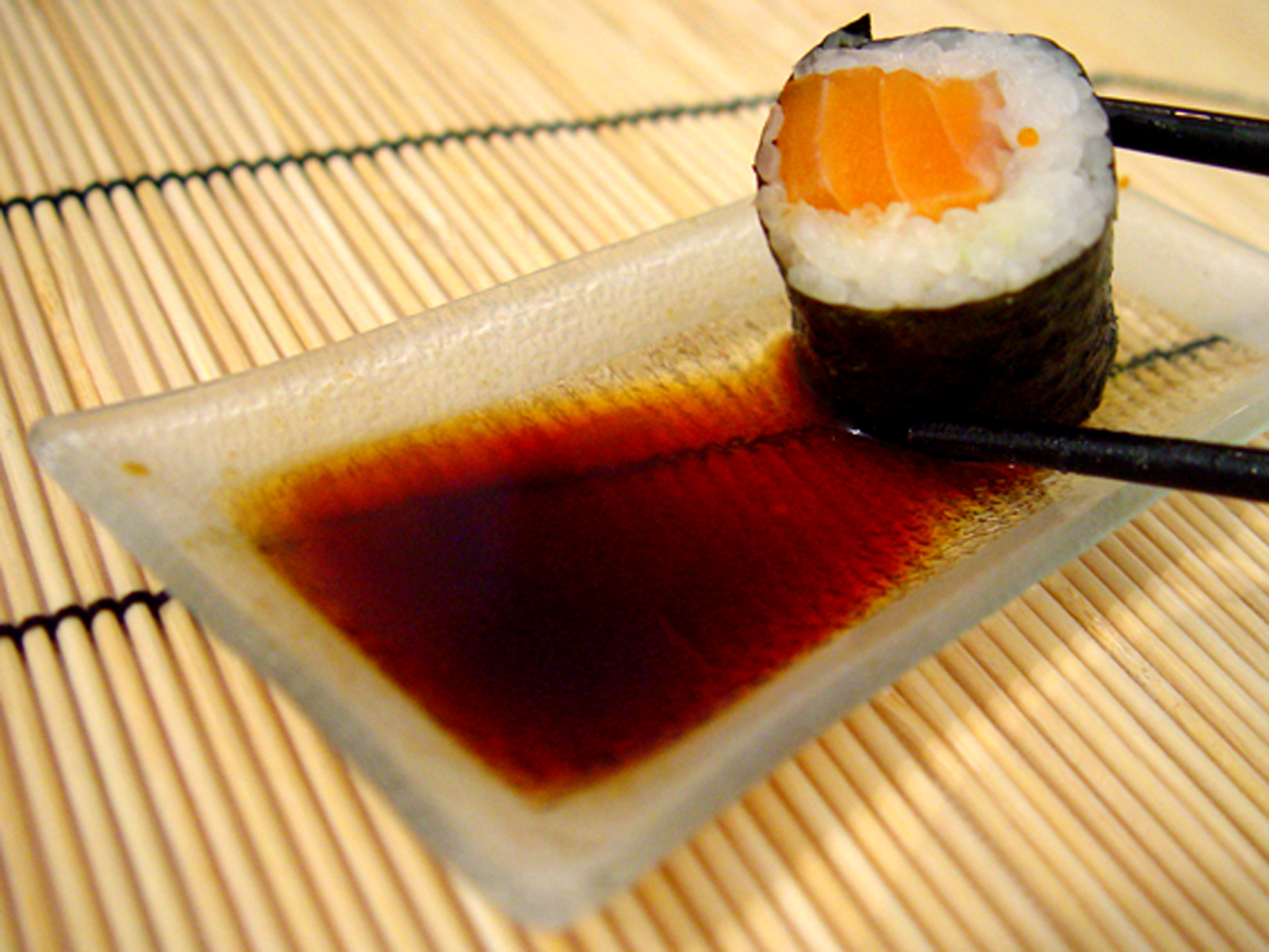 Salmon roll [巻き鮭] ready to eat